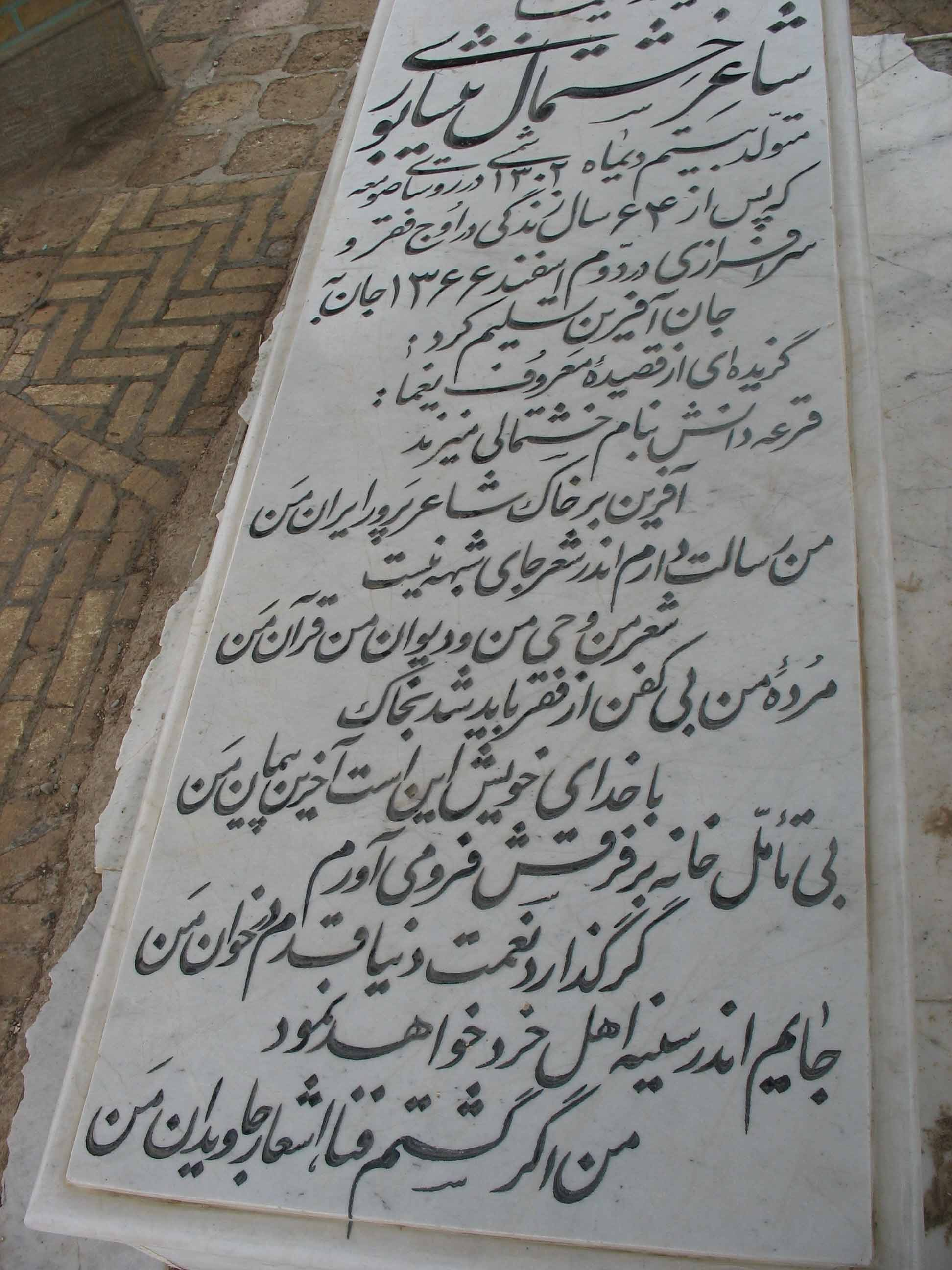 Heydar Yaghma gravestone in Neyshabur